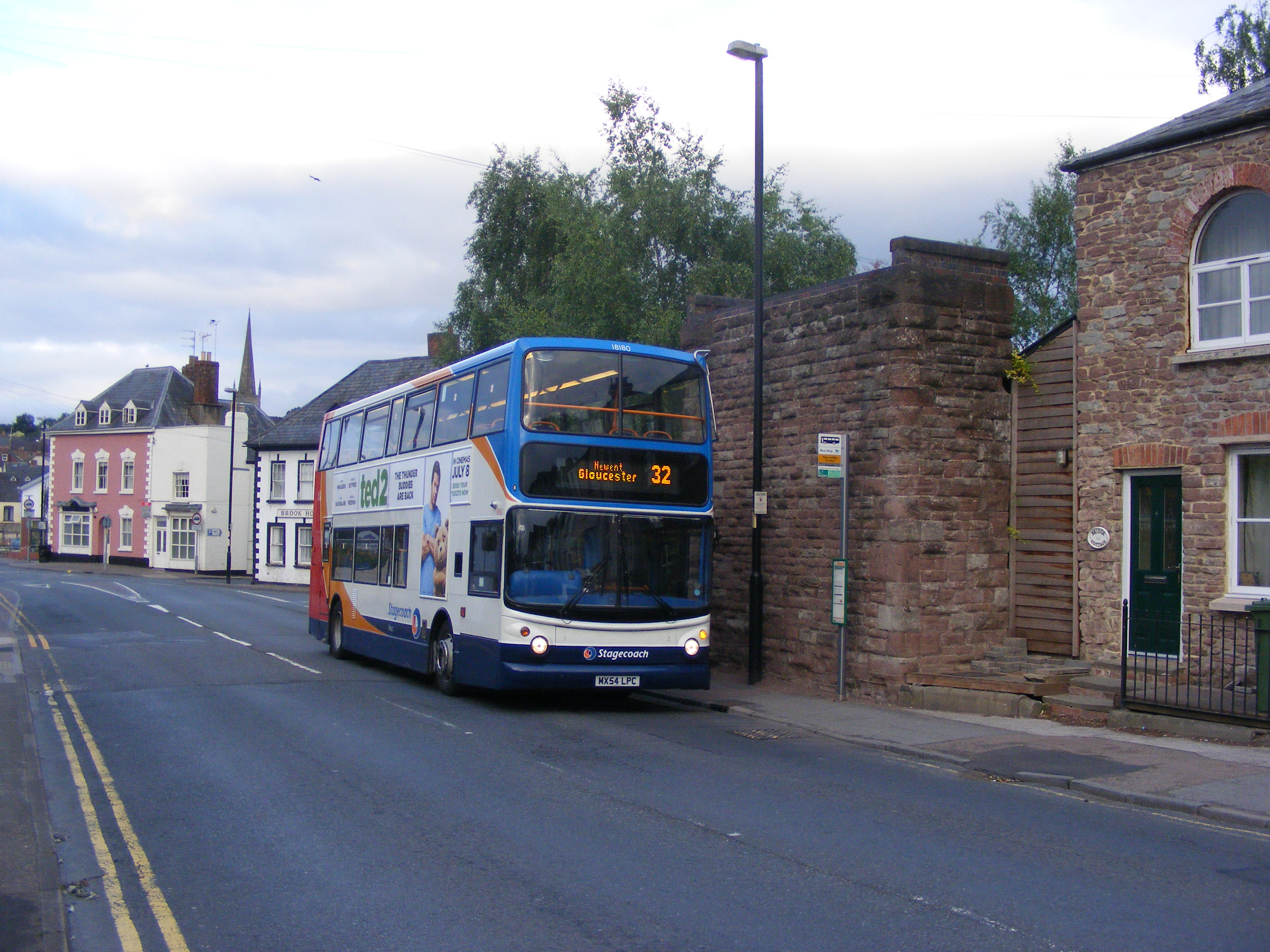 TransBus Trident ALX400 18180 of Stagecoach West waits at Five Ways, Ross-on-Wye adjacent to a bridge abutment of the former Hereford, Ross and Gloucester Railway on 8th July 2015.